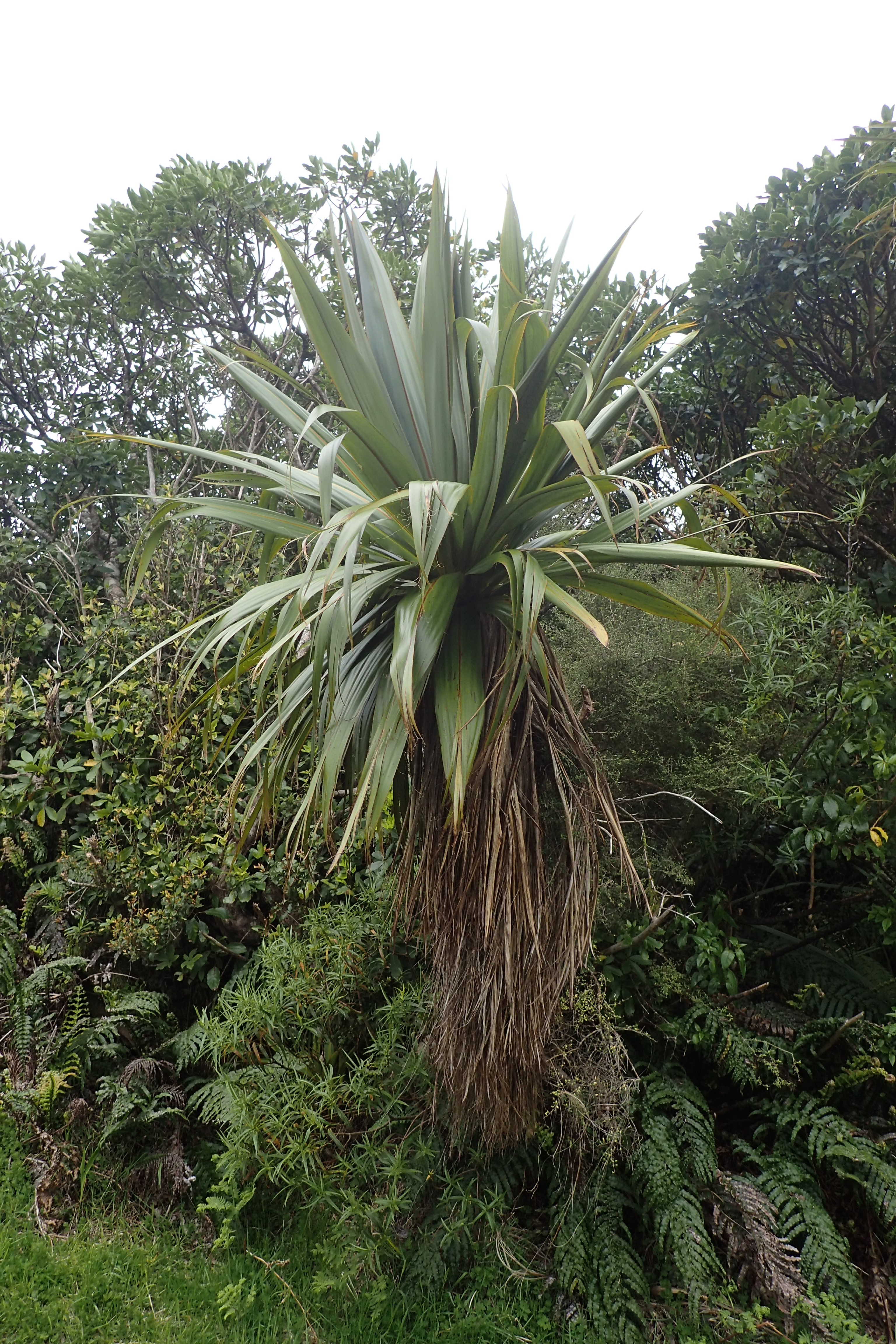 Cordyline indivisa near Pambroke Rd in Edmont National Park, Taranaki (New Zealand)